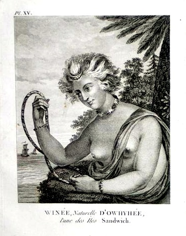 Winee. Naturelle D'Owhyhee L'Une Des Iles Sandwich. Paris. 1794. This fine engraving of a Woman of the Hawaiian Islands was sketched by a member of Captain John Meares' crew during his voyages to America's Pacific Northwest, China and Hawaii in the years 1786, 1788 and 1789. This copper engraving was from the French Edition of “John Meares Voyages Made in the Years 1786, 1788 and 1789.” published in Paris, in 1794. Winee went to the Pacific Northwest aboard the British ship Imperial Eagle as the servant of wife of the ship's captain Charles Barkley. She was left in Canton where she decided to return to Hawaii aboard Captain John Meares's ship with fellow Hawaiian Kaiana, but she died of illness on the voyage on February 5, 1788.